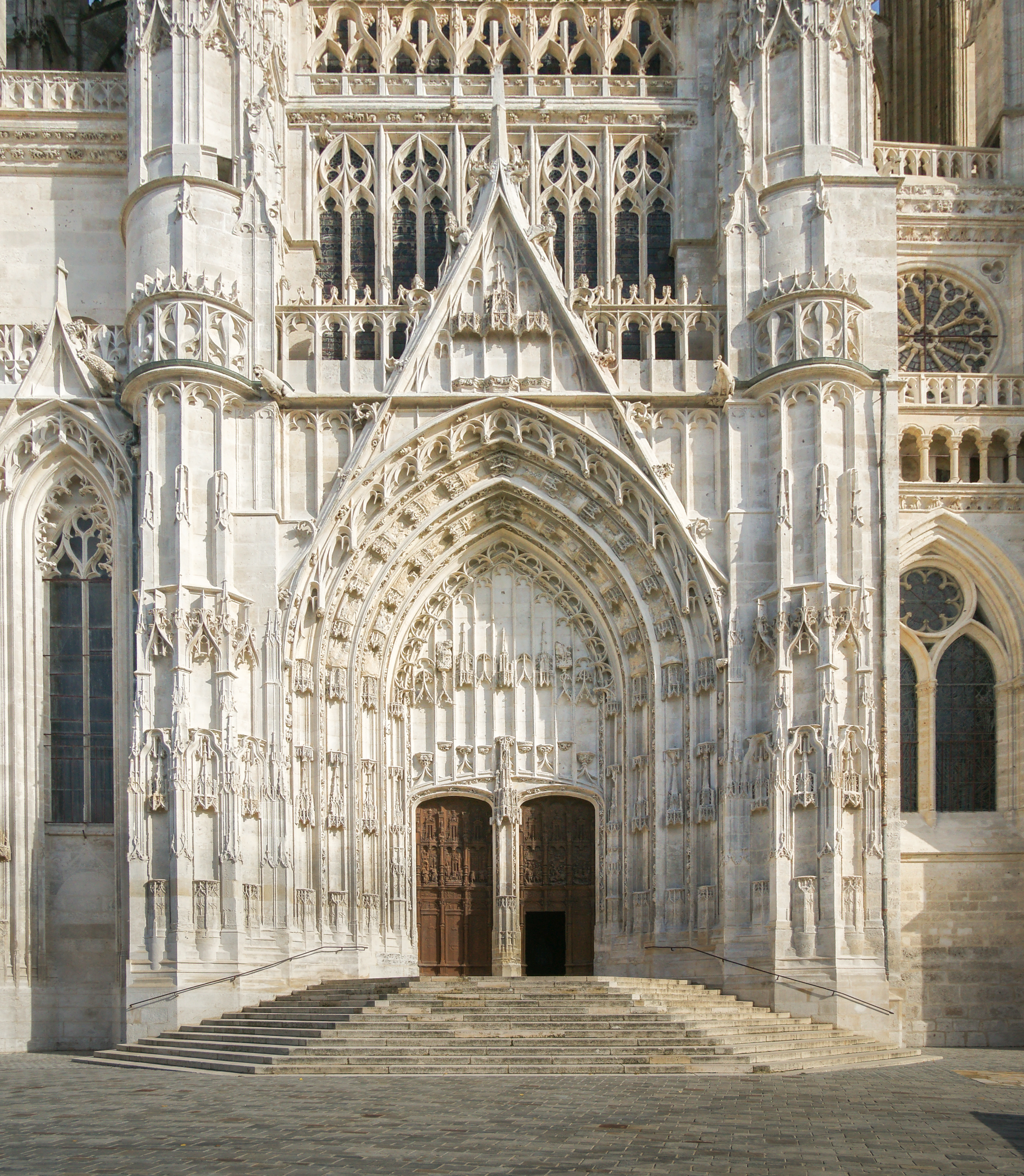 Portal of St. Pierre Cathedral in Beauvais